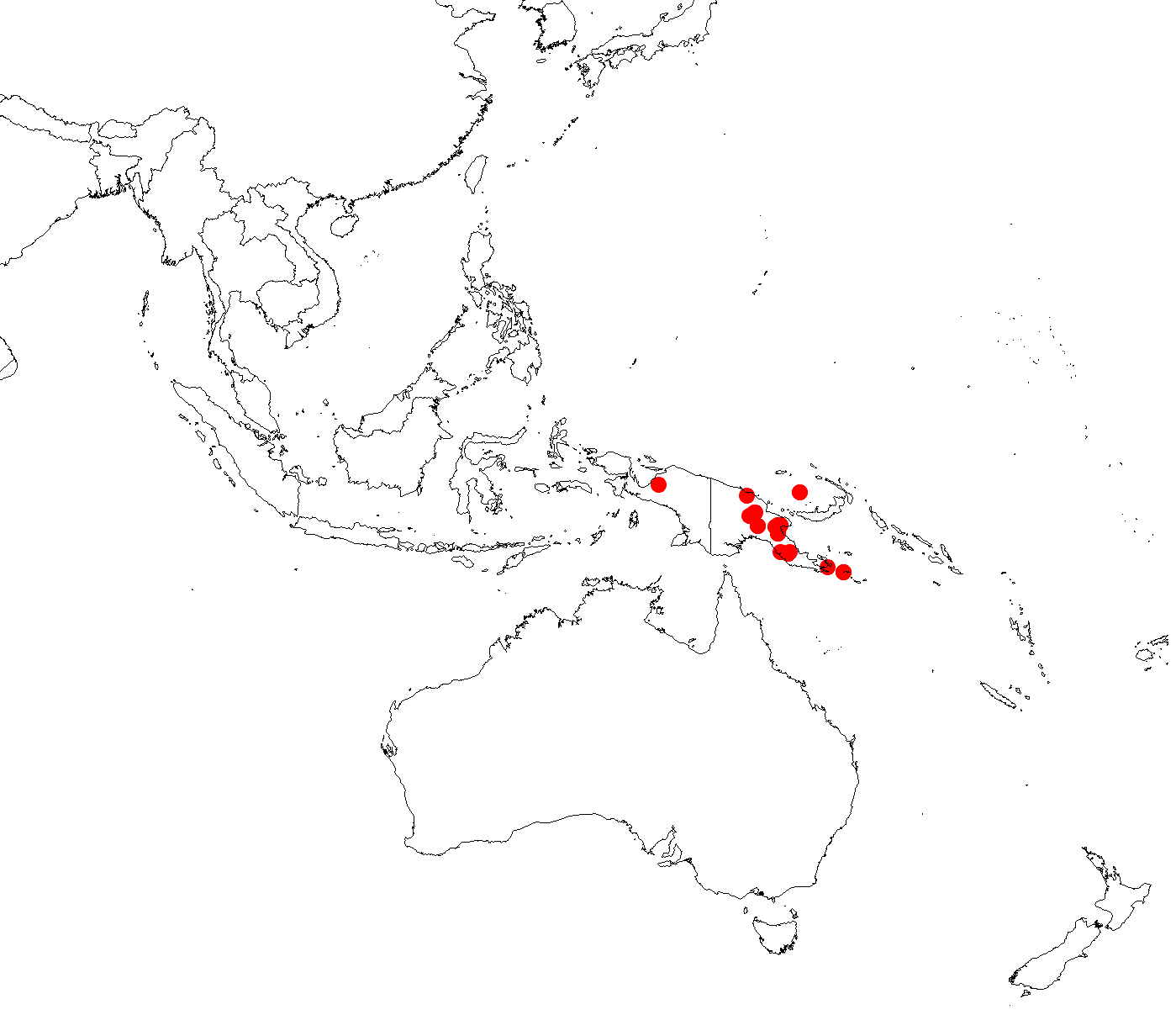 Parsonsia warenensis Occurrence data downloaded from (21 December 2018) GBIF Occurrence Download